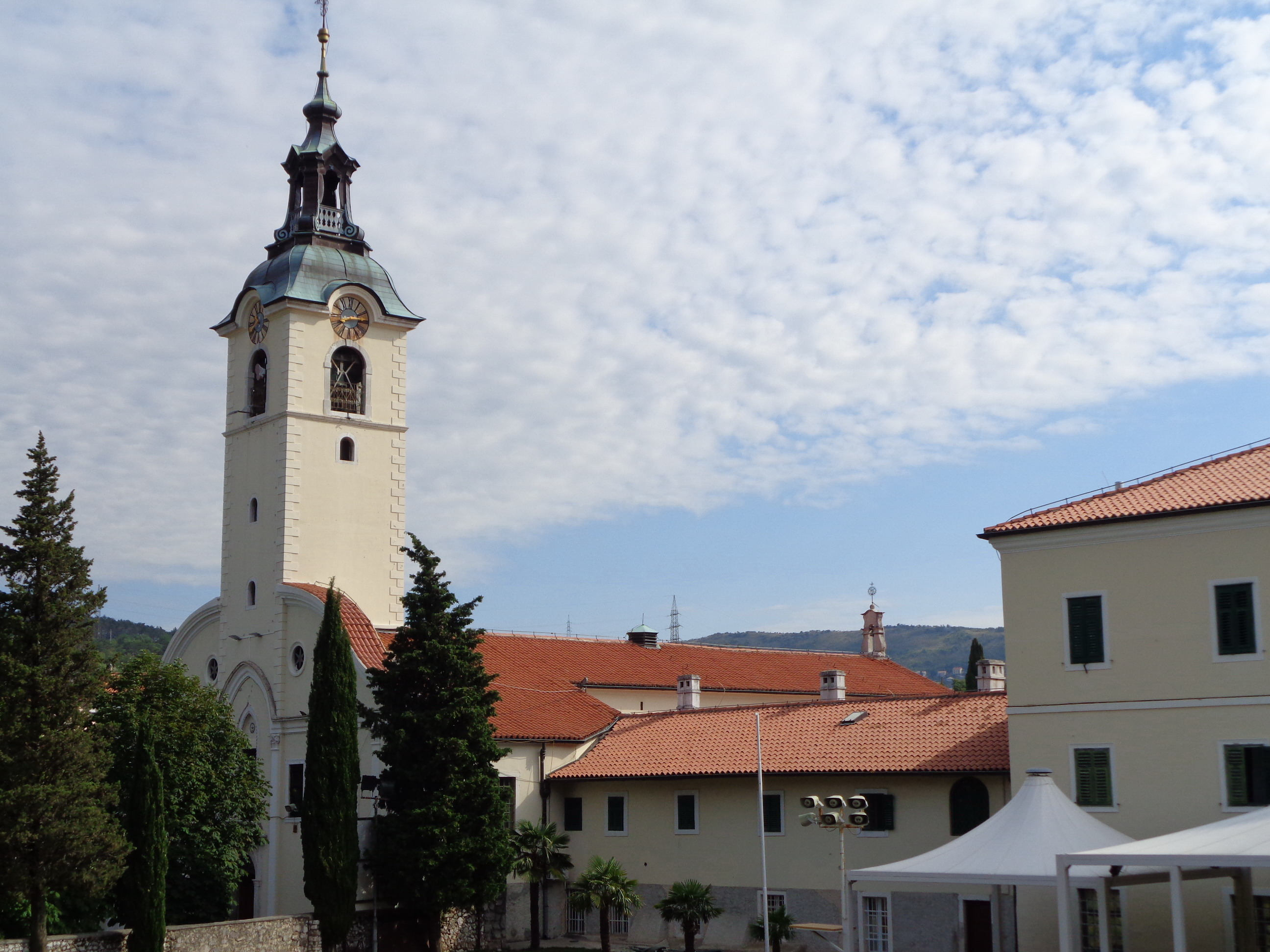 Frontage of the Church of Our Lady of Trsat, Rijeka, Croatia (with surrounding buildings)